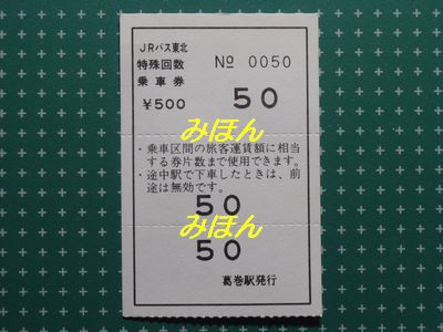 JR Bus Tohoku Repeat Ticket sold by Kuzumaki Sta.